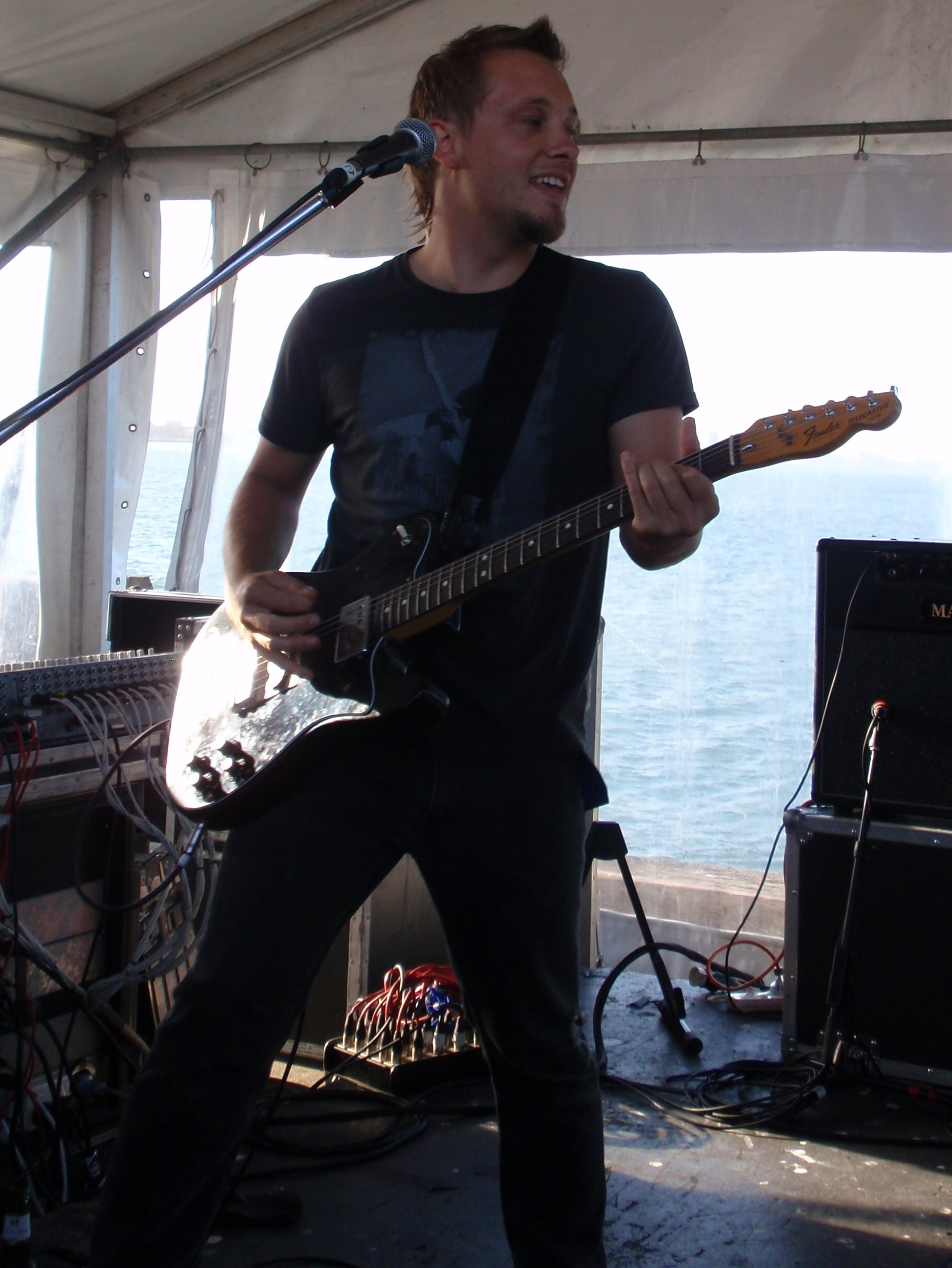 Matt Smith playing with Thirsty Merc at The Brewery in Newcastle on 12th March 2011.